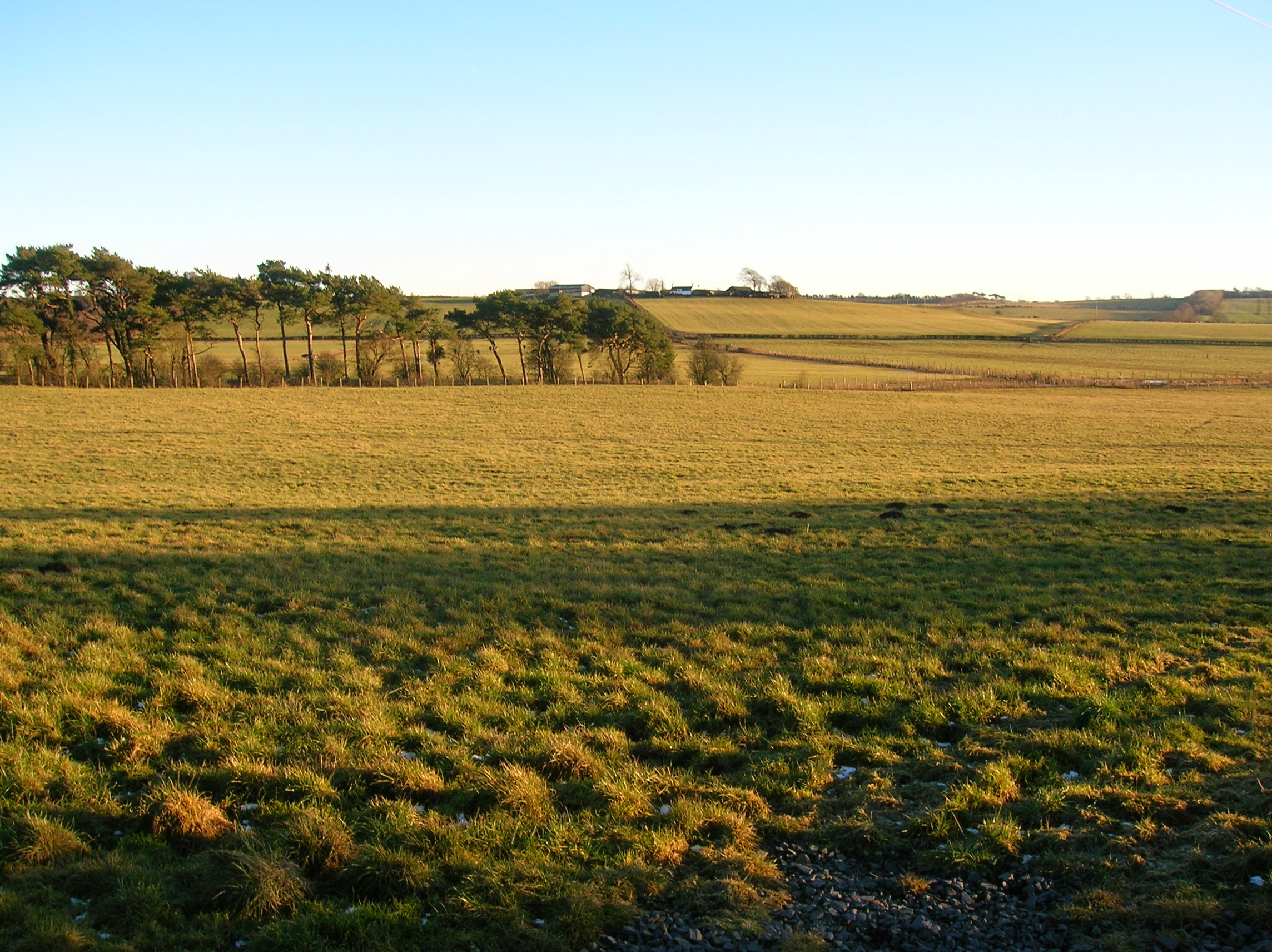 Loch Brown's site with Lochhill Farm in the background and the tree lined lade of the Garroch Burn. Crosshands, East Ayrshire, Scotland.